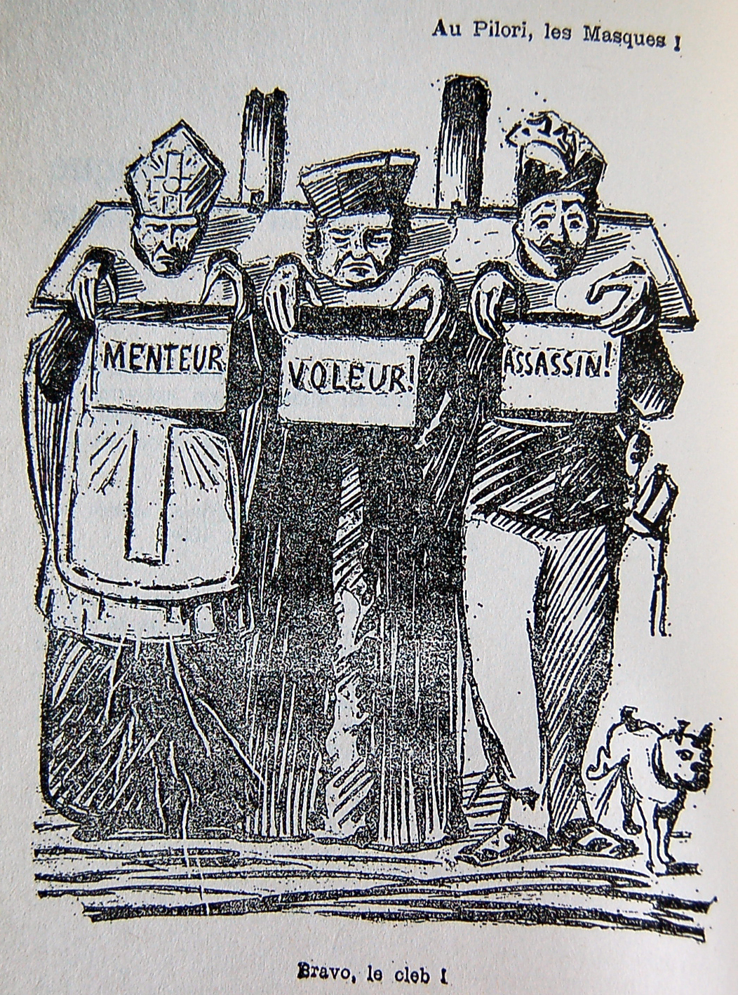 French anarchist newspaper Le Père Peinard